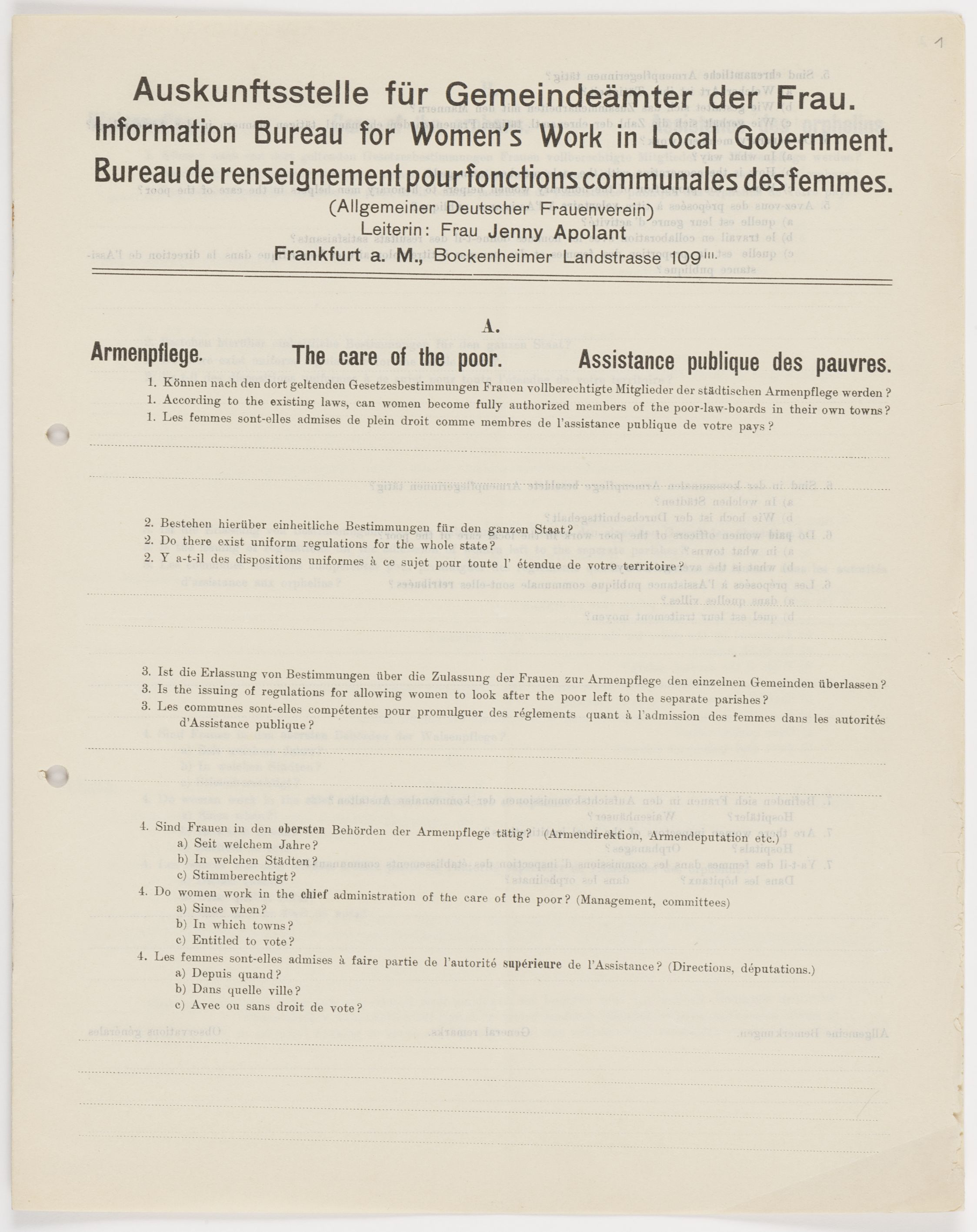 Questionnaire of "Auskunftstelle für Gemeindeämter der Frau" (Information office for community offices of woman) and "Auskunftstelle für Fraueninteressen des ADF" (Information office for women's interest of Universal German Women's Association), female assistants in scientific laboratories, flyer, paper, printed, 1908. With such polls data about the social, political and juridical situation in the German empire were gathered to substantiate statistically demands of the Women's Movement. Photo of questionnaire in repository of Archiv der deutschen Frauenbewegung (Archive of German Women's Movement), Kassel, Signature NL-K-08; 36-1/11. Photographer: Horst Ziegenfusz on behalf of Historisches Museum Frankfurt (Historical Museum Frankfurt). Published in Dorothee Linnemann (ed.): Damenwahl! 100 Jahre Frauenwahlrecht. Begleitbuch zur Ausstellung. Societäts-Verlag, Frankfurt am Main 2018, ISBN 978-3-95542-306-3, p. 76.